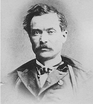 Lt. Col. James F. Huston, 82nd NY Infantry